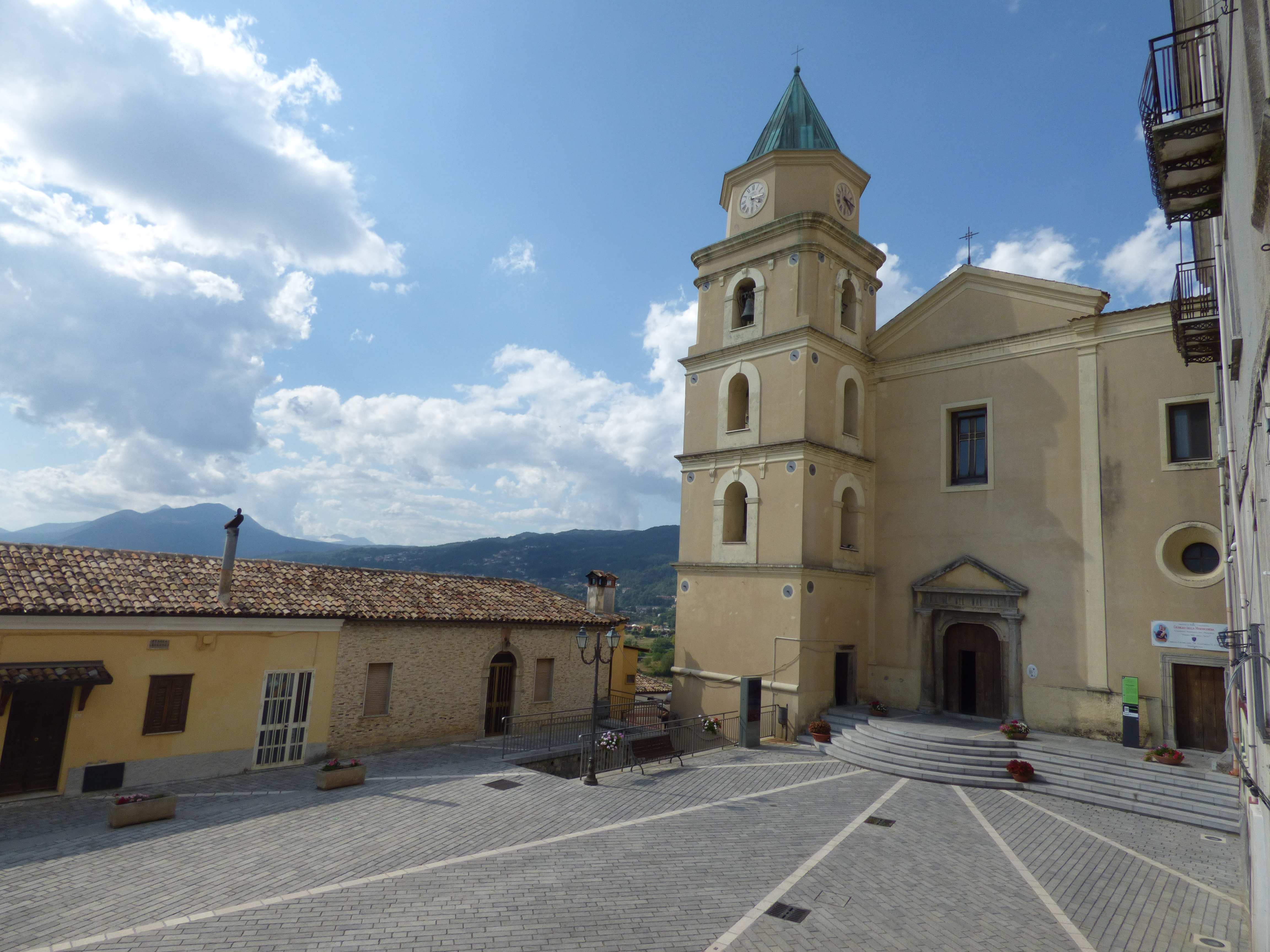 Chiesa di Santa Caterina Vergine e Martire, Viggianello